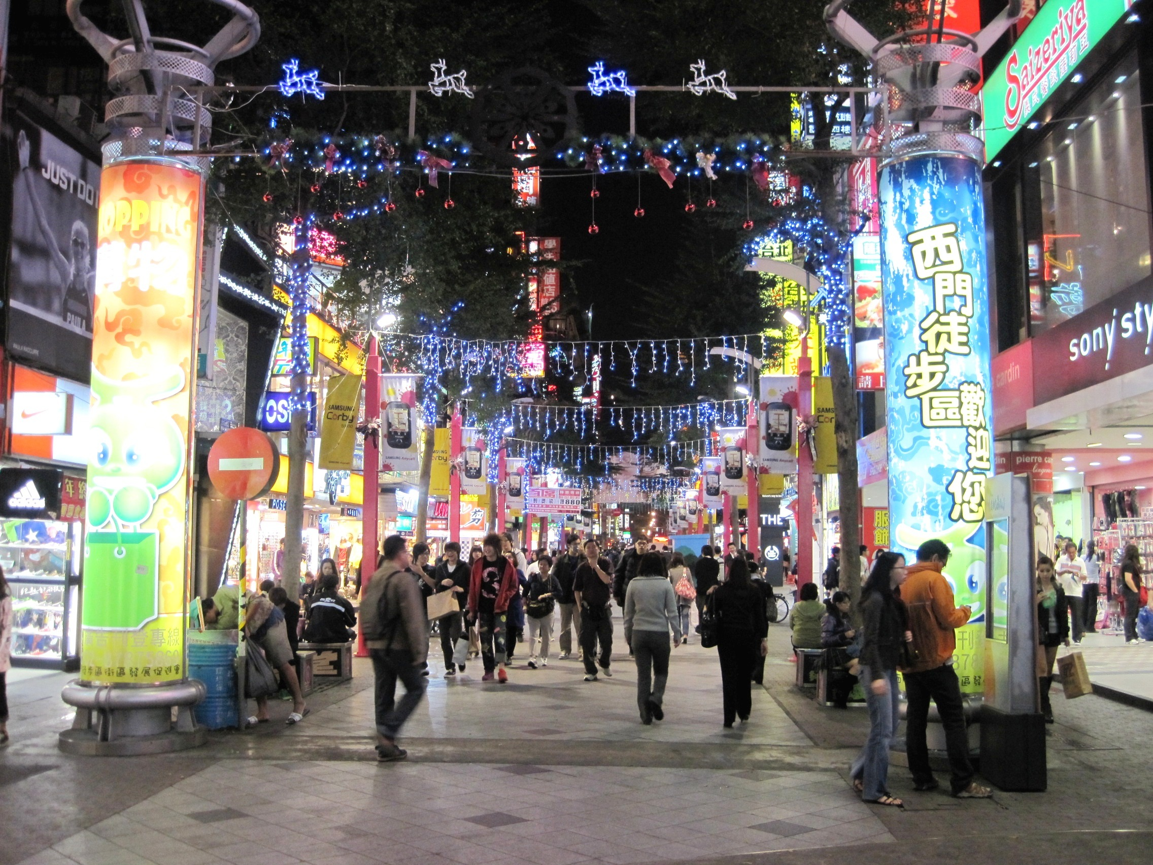 Ximending Pedestrian Zone main alley at night. 中文（台灣）: 西門町徒步區